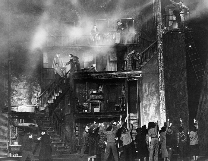 Photograph of the New York production of One-Third of a Nation, a Living Newspaper play by the Federal Theatre Project